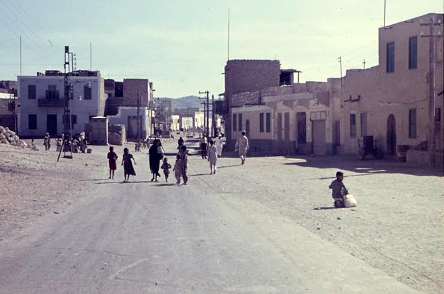 On the streets of al-Qusair